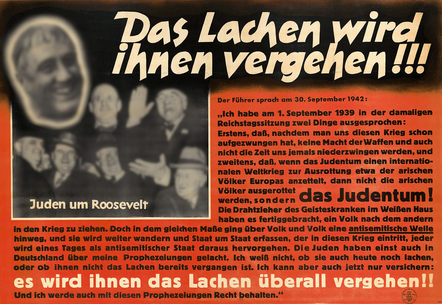 Nazi propaganda poster "Das Lachen wird ihnen vergehen!!!" in Parole der Woche, a wall newspaper. References Hitler's prophecy. In real life, it had a dimension of 84 by 120 centimetres (33 in × 47 in). source